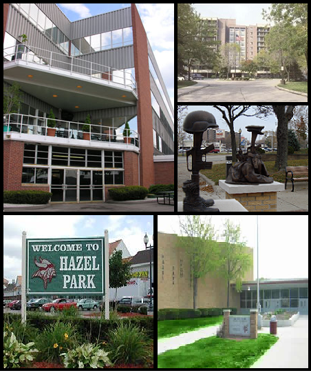 Montage of Hazel Park Hazel Park Racetrack Hazelcrest Apartments, tallest building in the city Monument to the Fallen Heroes at City Hall Hazel Park Welcome Sign Hazel Park High School